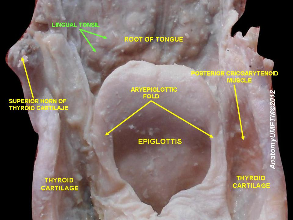 Anatomical dissections